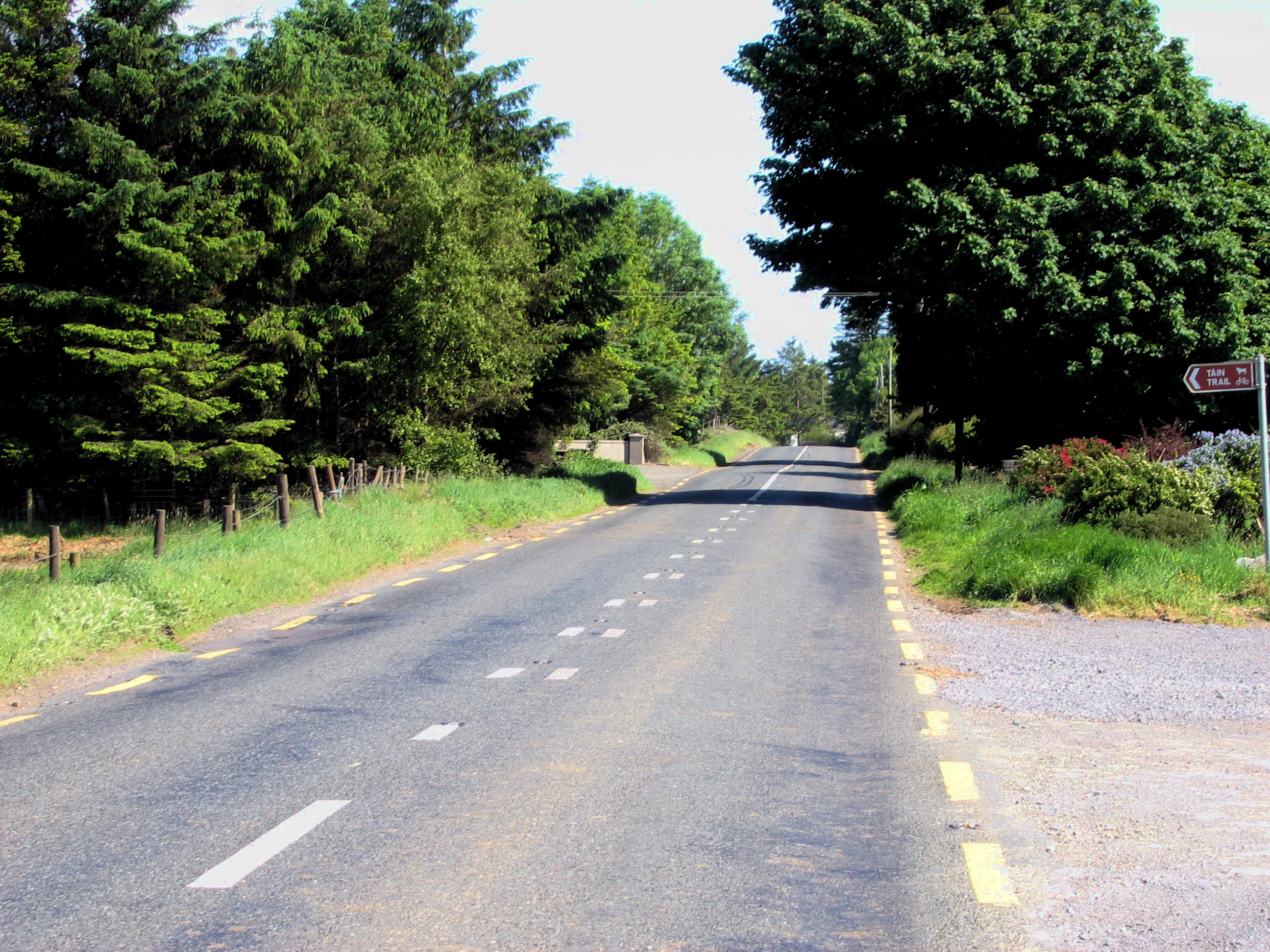 N5 road in Co Roscommon west of Tulsk, looking east.